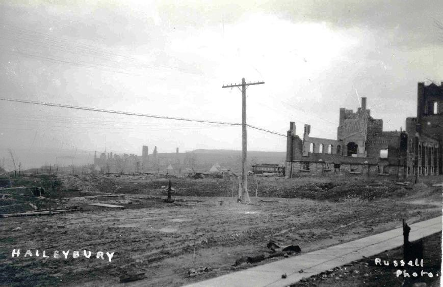 Haileybury, Ontario, Canada, after its destruction in the Great Fire of 1922.